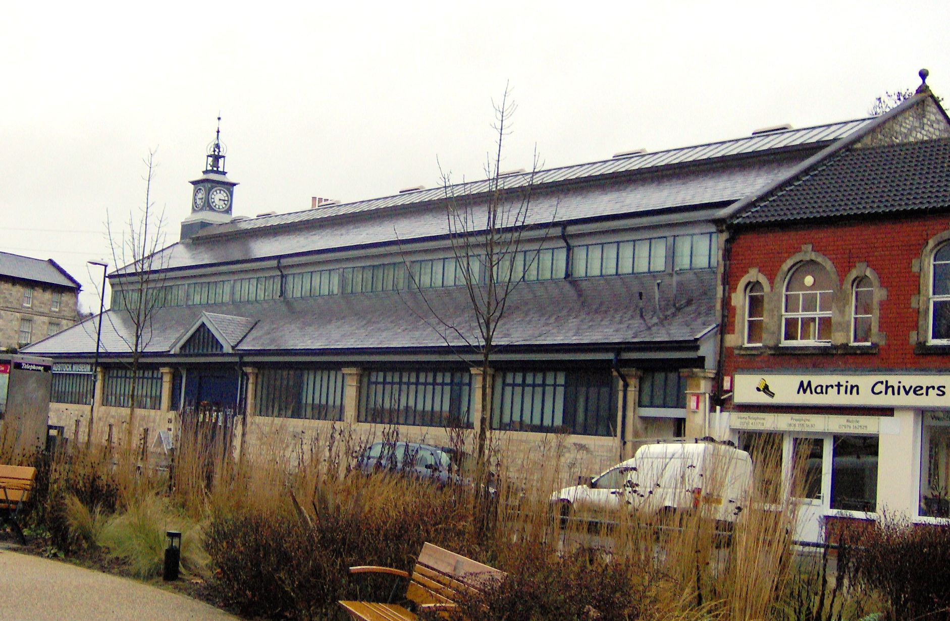 Radstock Museum. Taken by Rod Ward 10th Dec 2006